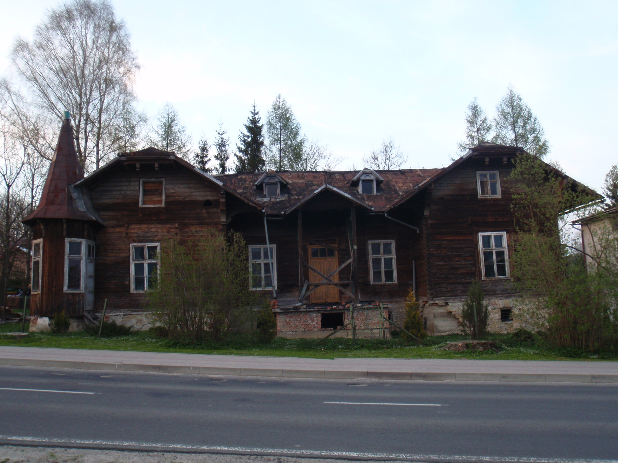 Old house in Lutowiska